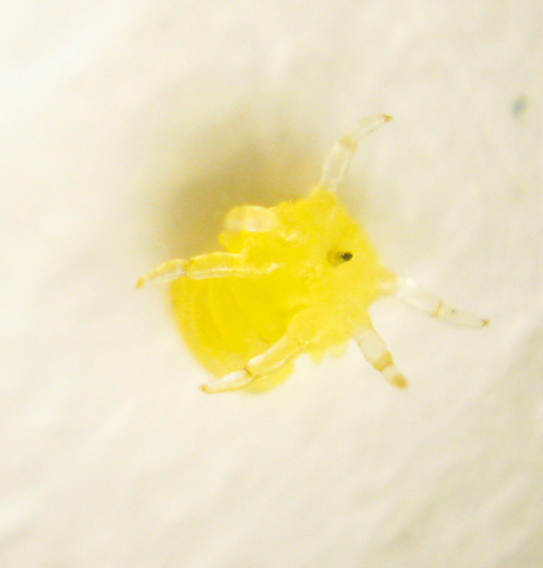 Pachypsylla celtidisumbilicus (hackberry disc gall psyllid) from galls on hackberry tree, Celtis Occidentalis. Size: Less than 1 mm. Josie Porter Farm - Stroud Township, Monroe County, Pennsylvania, USA.